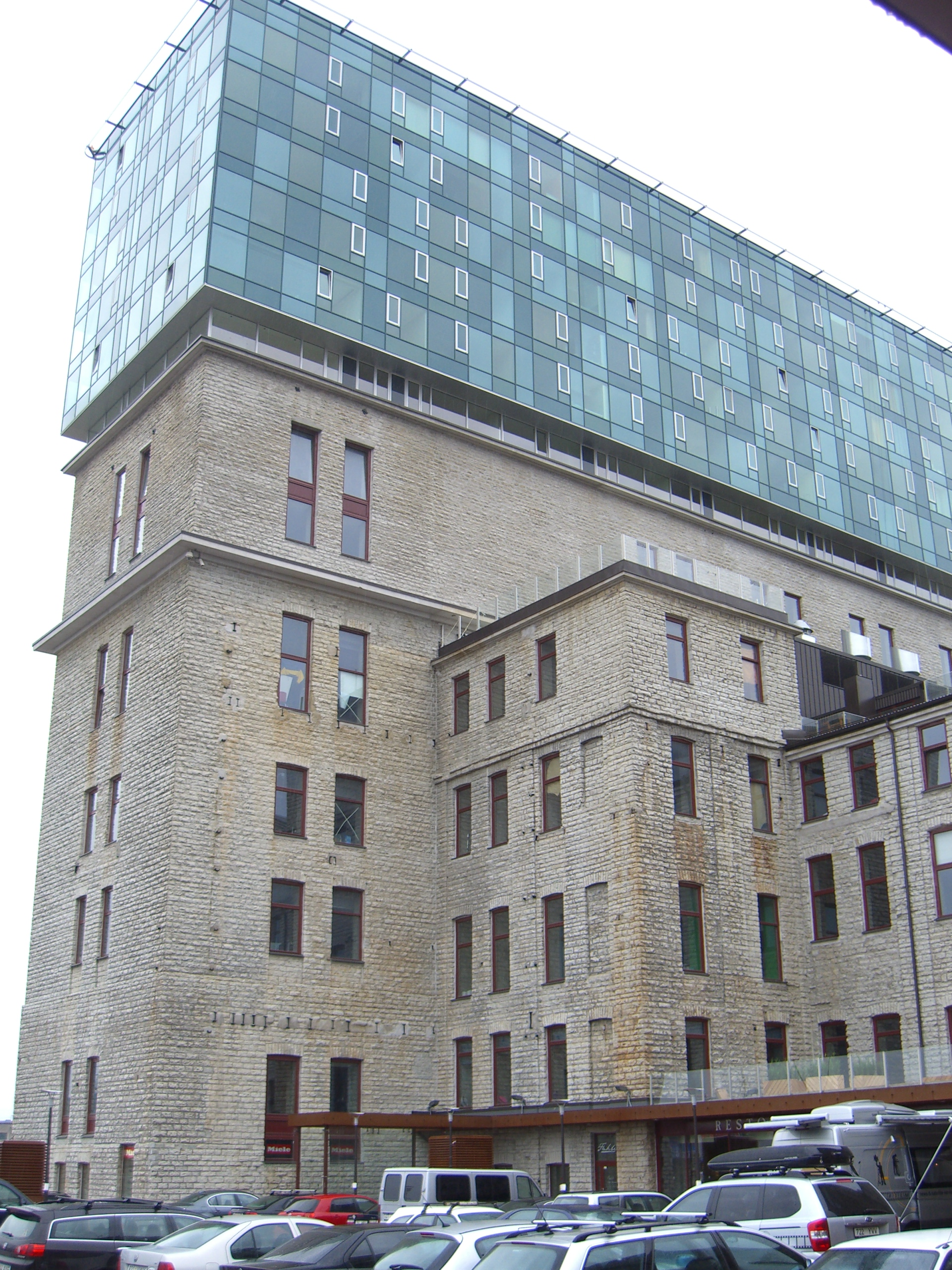 A former cellulose factory by Tartu mnt, now it is filled with restaurants, shops, offices and apartments. The view from the glass facaded apartments is incredible!